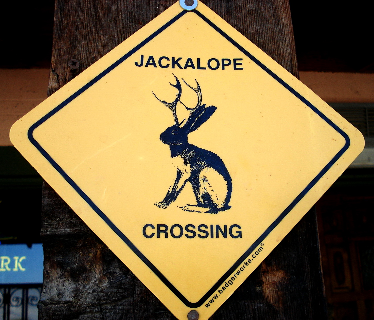 Plaque imitating a road sign warning of Jackalopes.